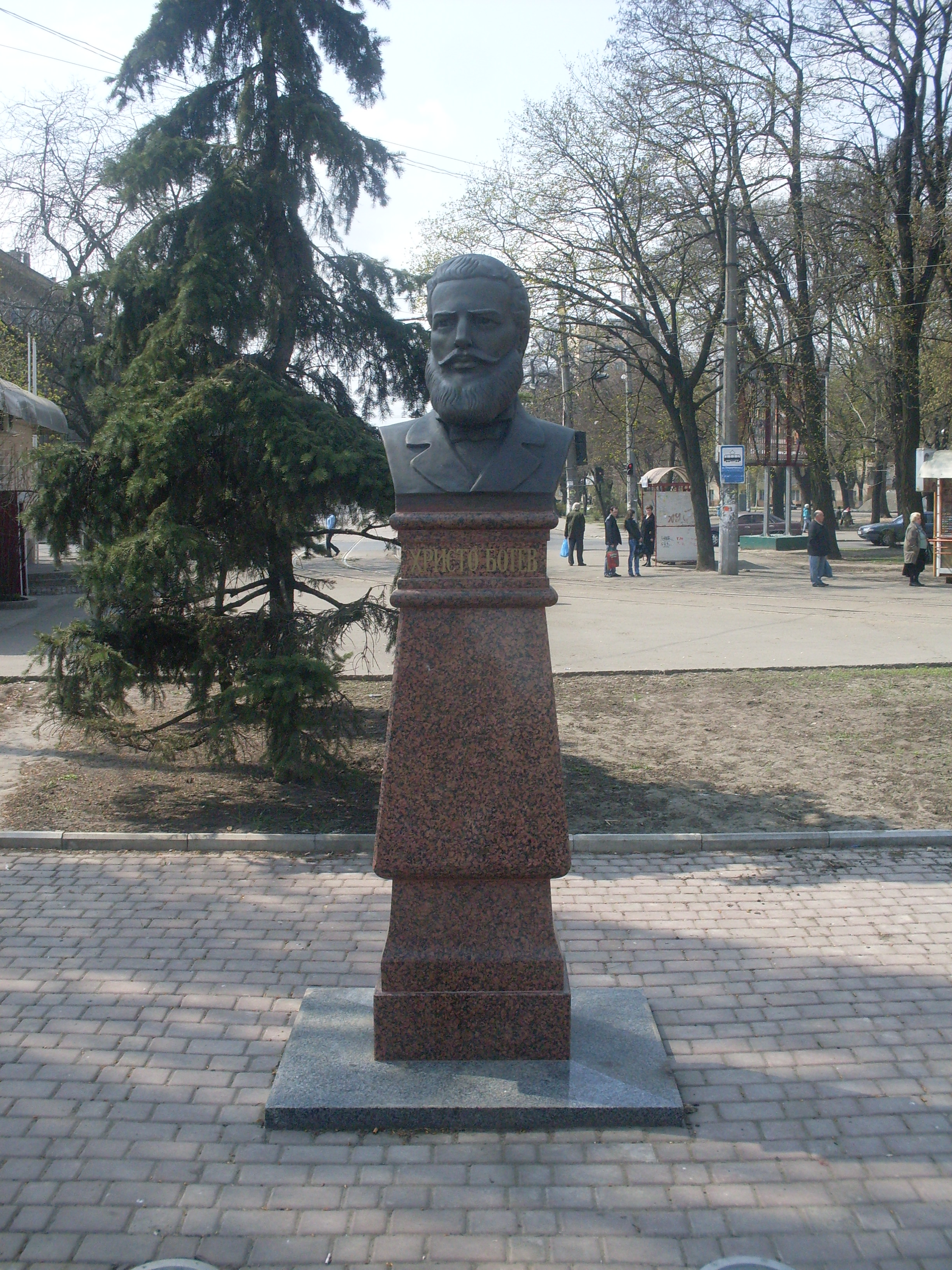 Monument to Hristo Botev in Odessa